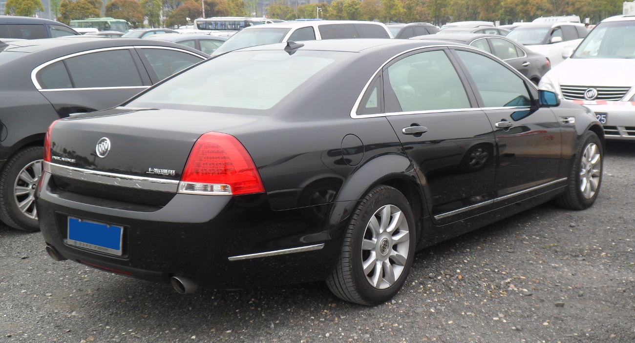 Buick Park Avenue CN photographed in Anting, Shanghai municipality, China.